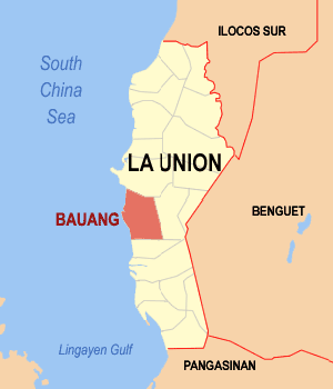 Map of La Union showing the location of Bauang